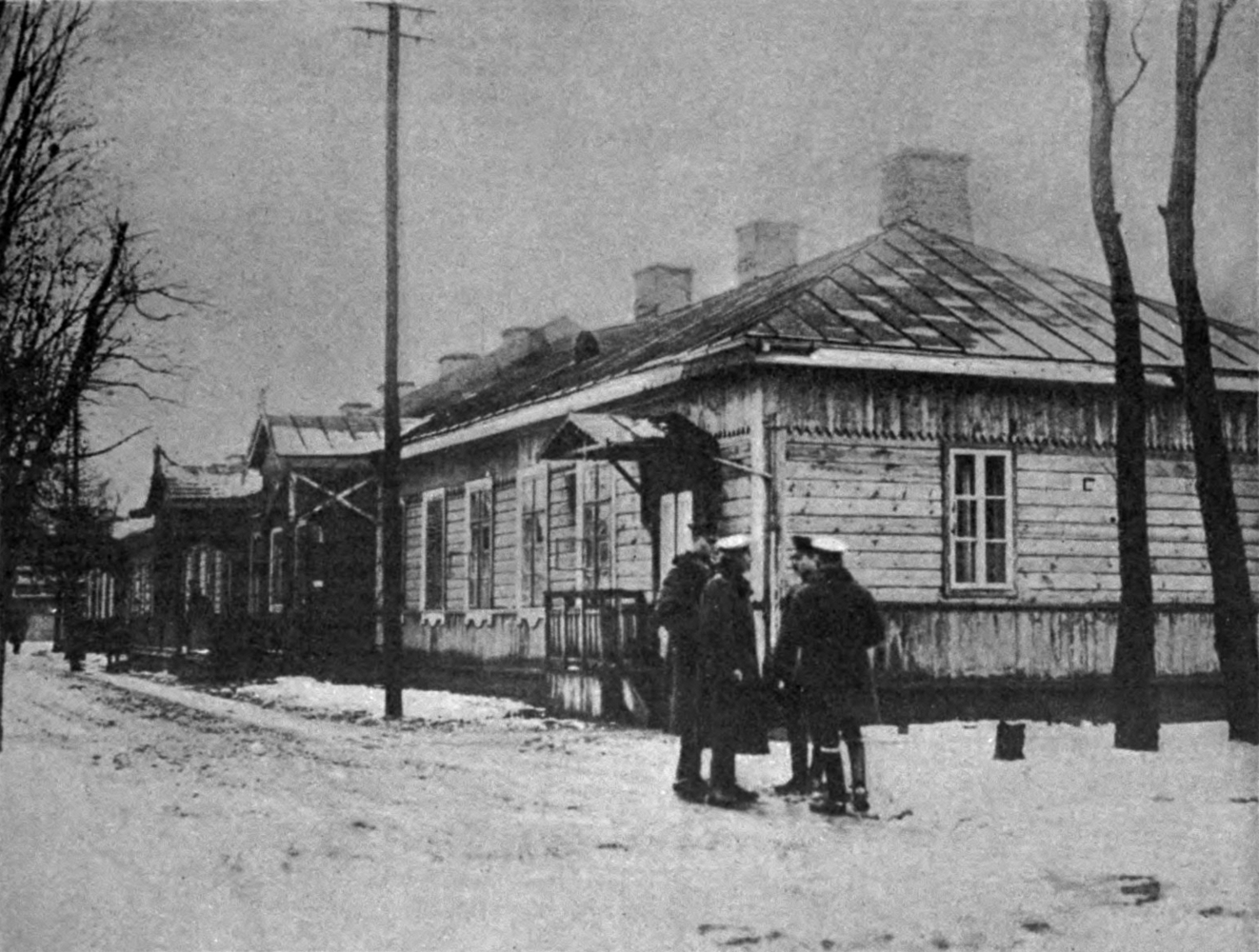 House were the peace negotiations took place in Brest-Litovsk, winter 1917-1918.